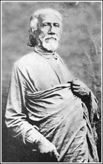 From Public Domain version of Autobiography of a Yogi, at